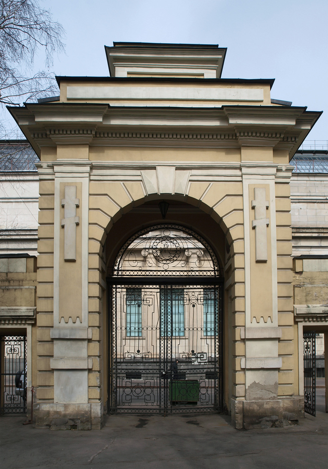 Moscow. Maly Znamensky Lane. Gates of Golitsyn Estate.